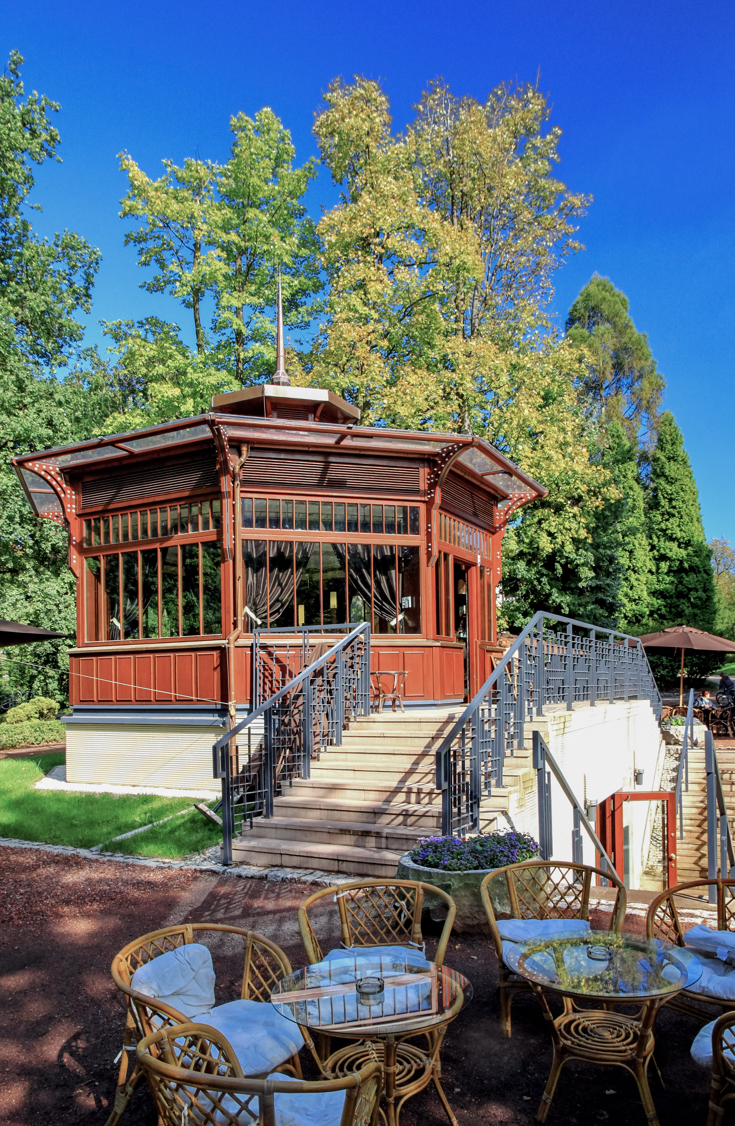 Summer café. Zdrojowy Park. Jastrzębie-Zdrój, Silesian Voivodeship, Poland.